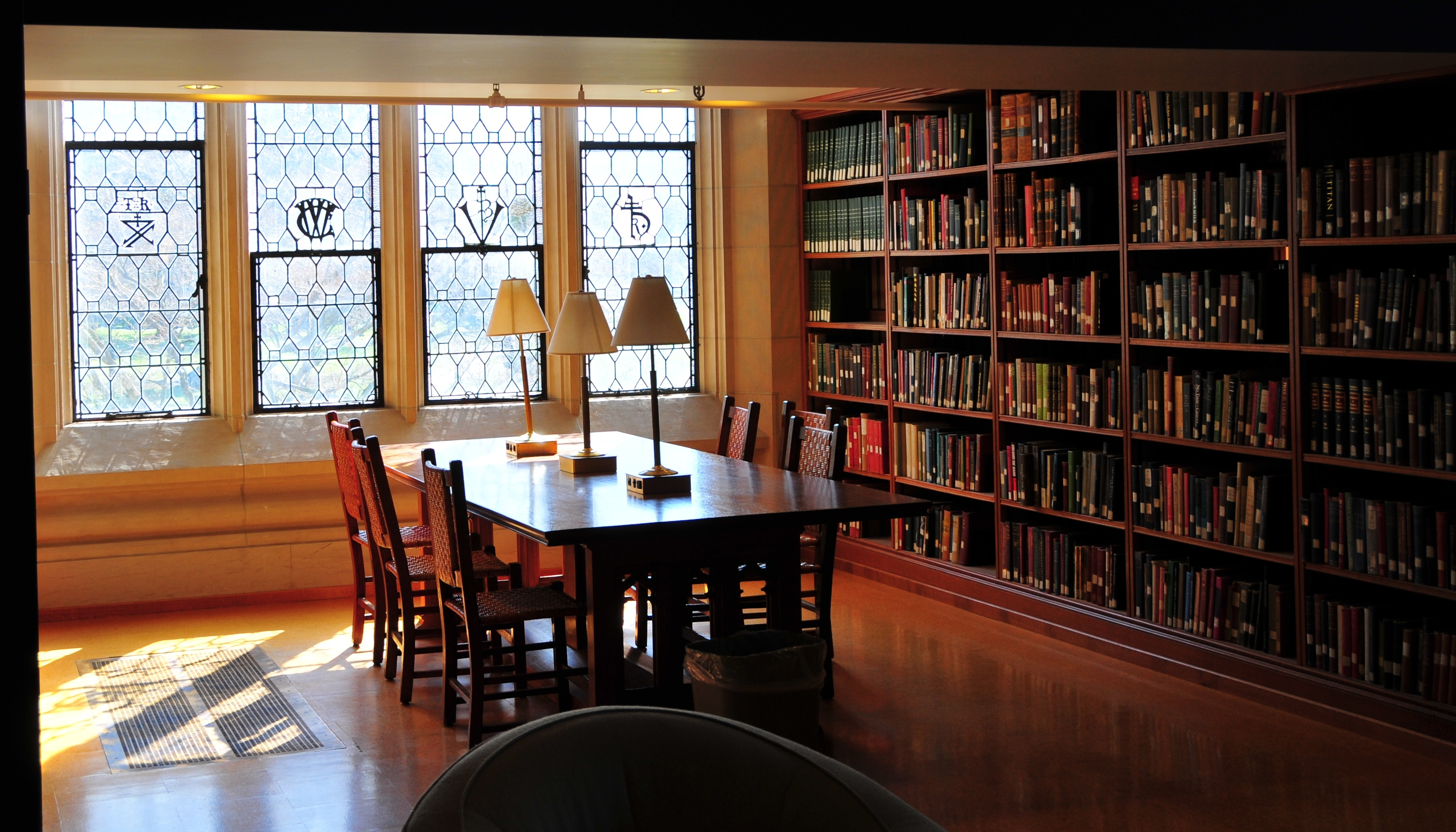 Study Area and Stacks, Thompson Memorial Library, Vassar College